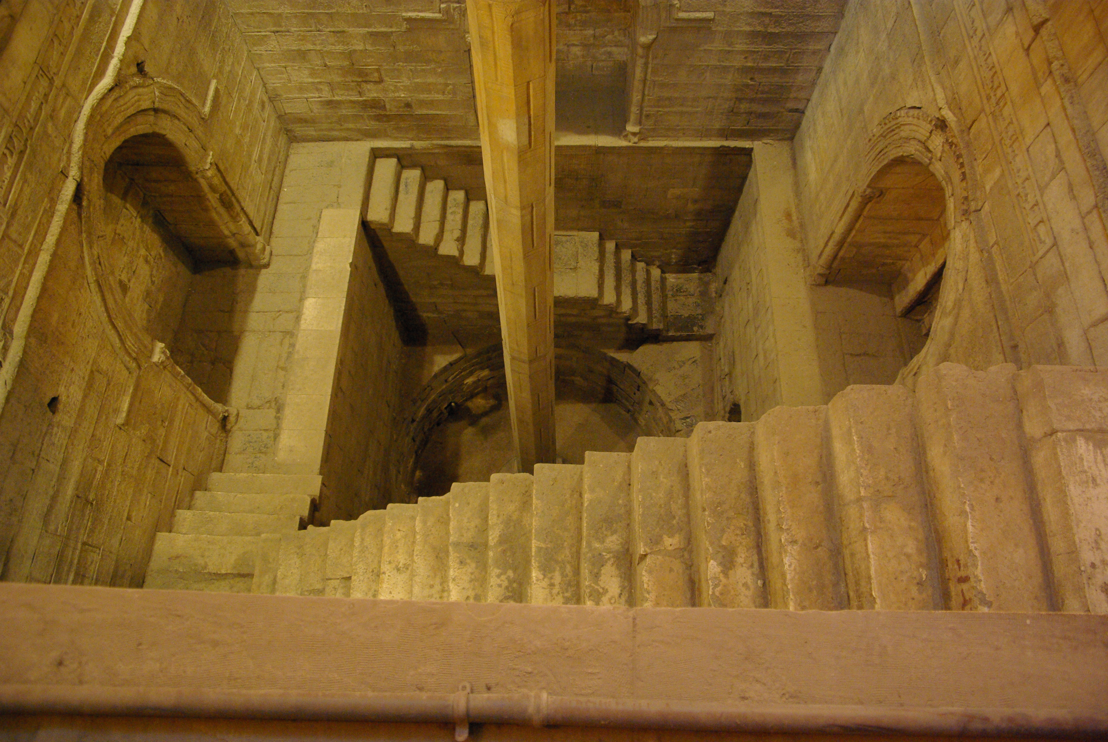 Cairo, Nilometer